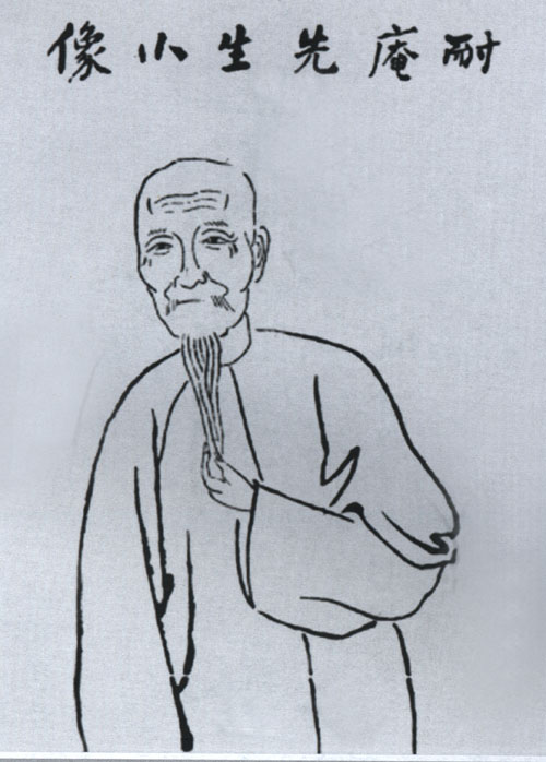 He Changling was a Chinese scholar and official during the Qing Dynasty from Changsha, Hunan.